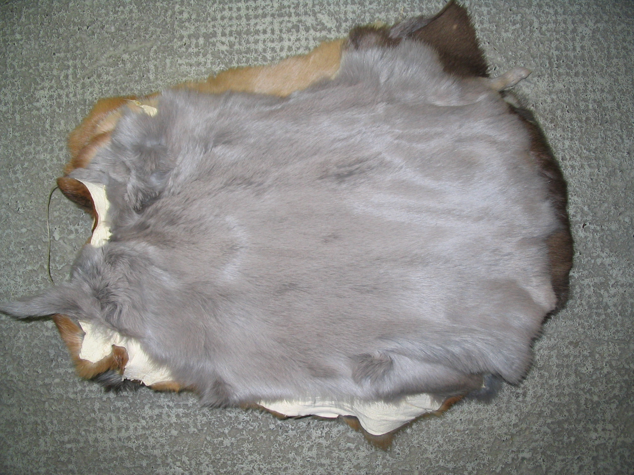 Domestic rabbit fur skin, type: Marburger Feh